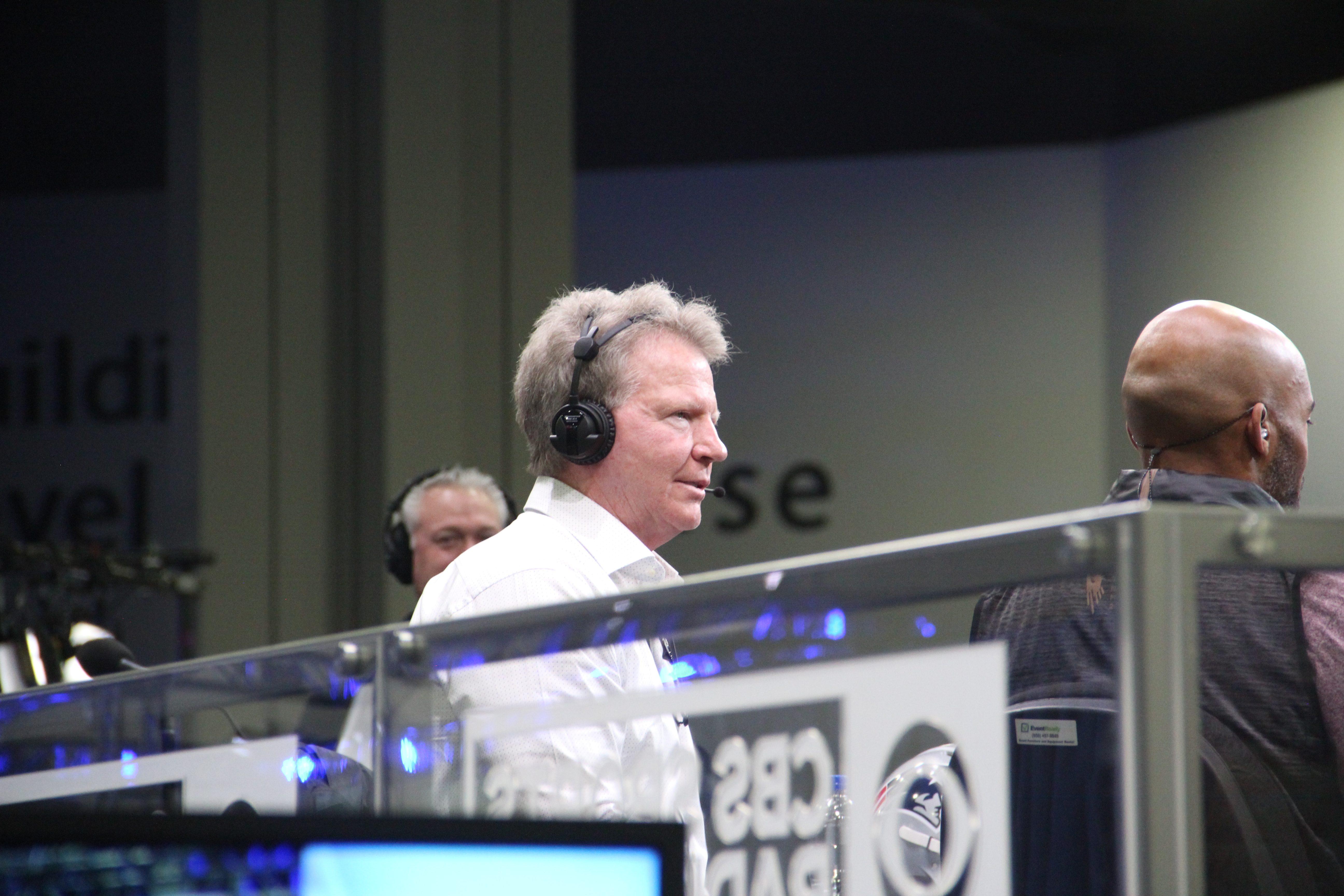 Phil Simms in 2019